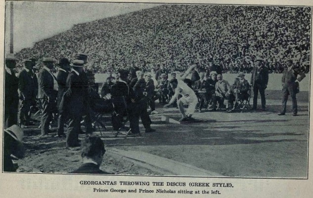 The Olympic games at Athens, 1906 (1906) Author: Sullivan, James Edward, 1862-1914 Subject: Olympic Games (1906 : Athens, Greece) Publisher: New York, American Sports Publishing Company Language: English Call number: 7740541 Digitizing sponsor: Sloan Foundation Book contributor: The Library of Congress Collection: americana [Open Library icon] This book has an editable web page on Open Library.